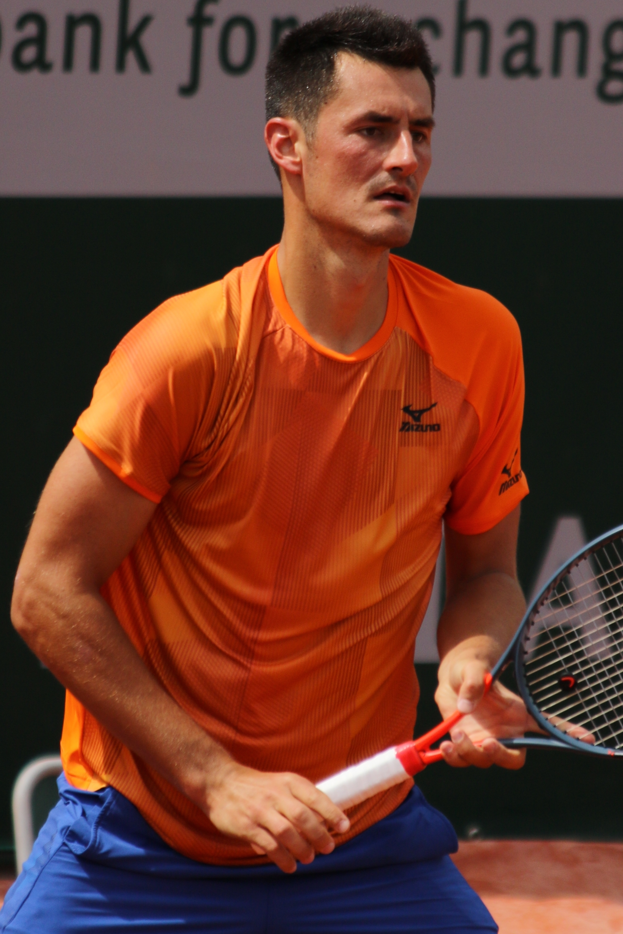 Tomic RG19 (12)